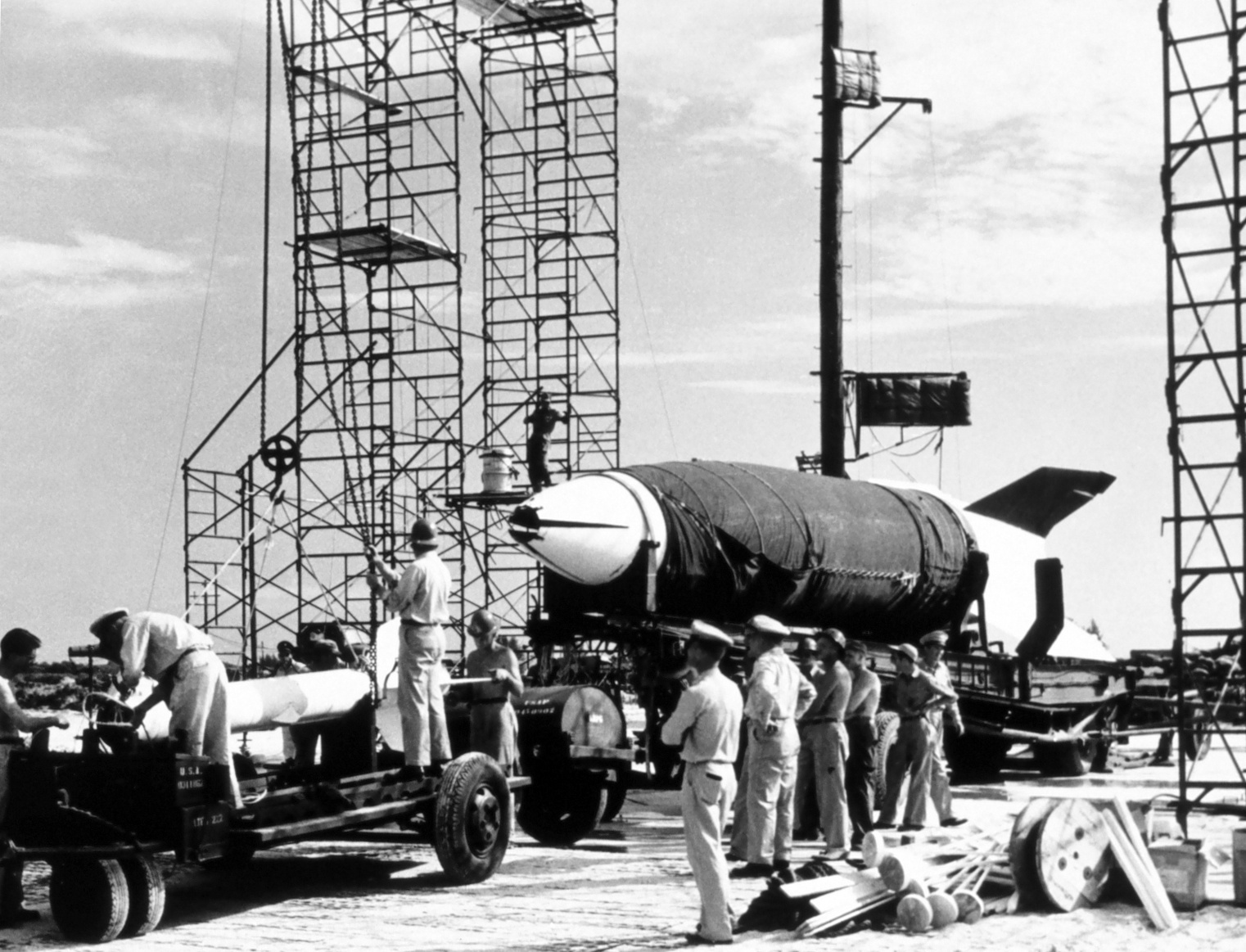 A V-2 missile on carrier being readied for launch - these missiles were used for early upper atmosphere studies.